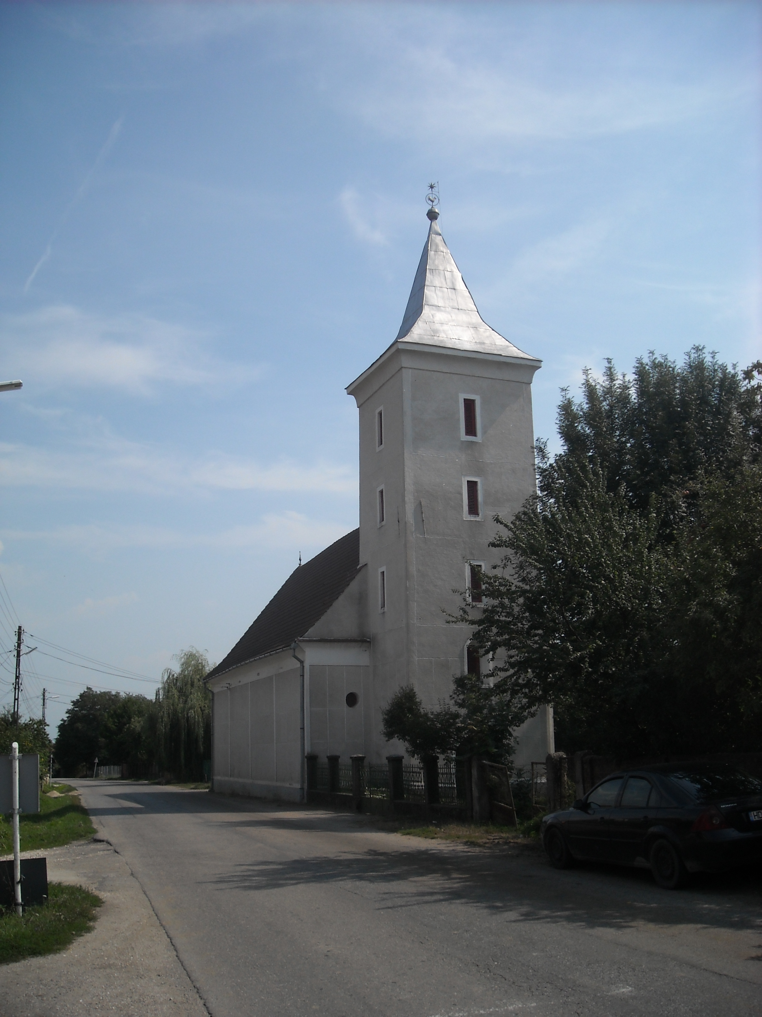 reformed church in Hărău (Haró), Hunedoara County, Romania